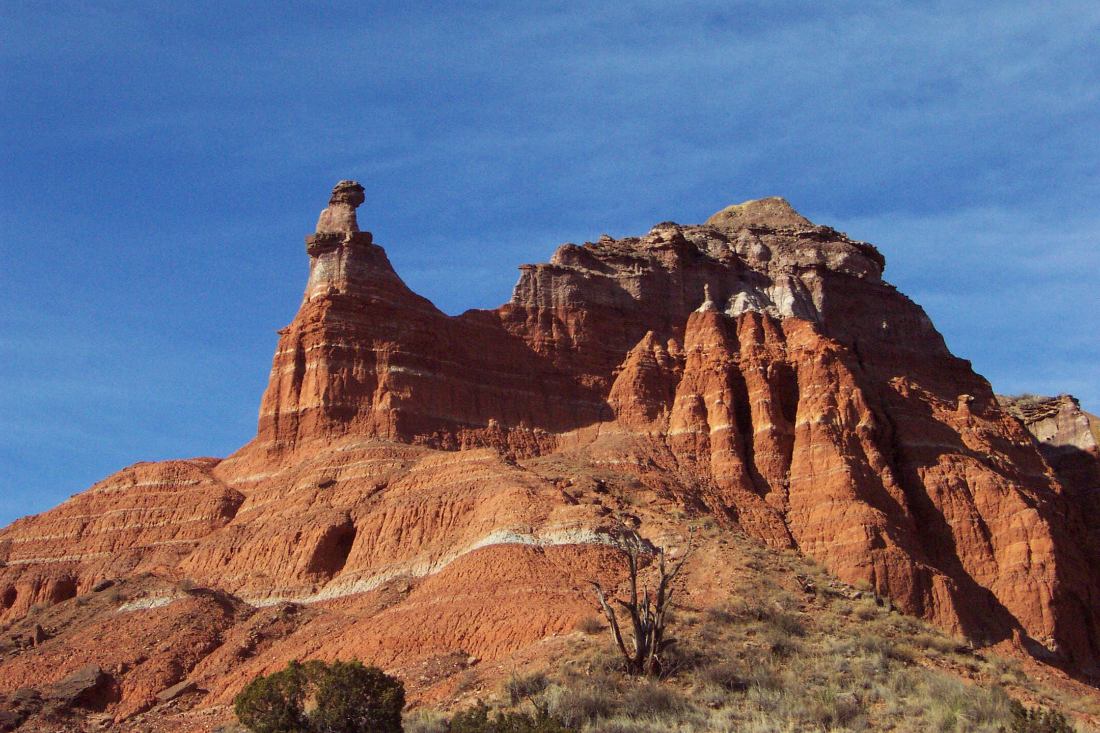 Capitol Peak with pillar-like erosional remnant (“hoodoo”) at the tip of its southern promontory, seen from a hiking trail at the southern foot of the mountain, northern part of Palo Duro Canyon, about 20 km SE of Amarillo, NW-Texas, USA. The terrestrial red beds exposed at Capitol Peak belong to the Quartermaster Formation of the Upper Permian, overlain by the Tecovas Formation of the Dockum Group of the Upper Triassic.[1] Both formations are easily distiguished from each other by their colouration: The beds of the Quartermaster Formation are more yellowish, whereas those of the Tecovas Formation are more bluish.